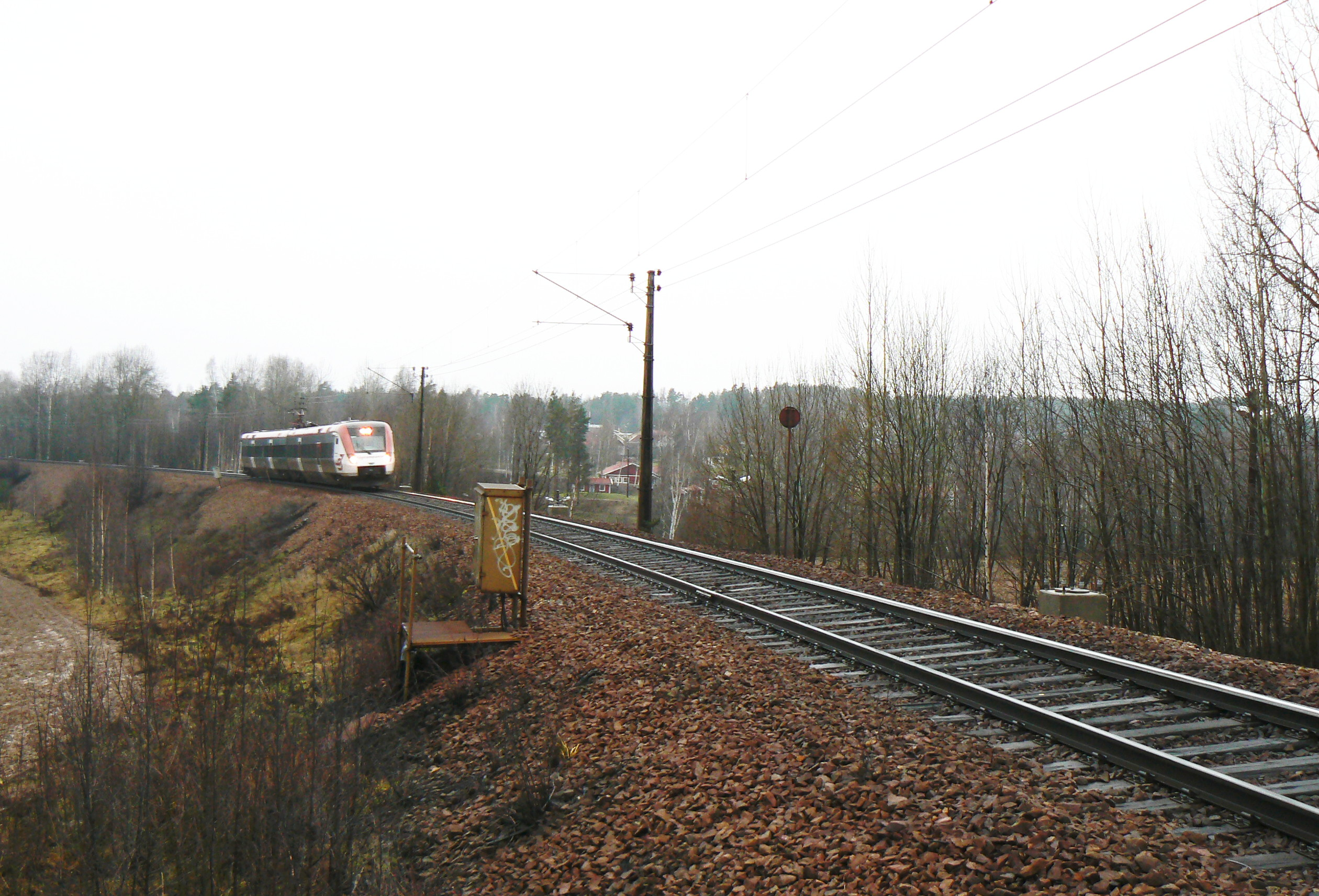 "Regina" train on Bergslagsbanan east of Falun, Sweden. Photo by Skvattram 2006-11-25.